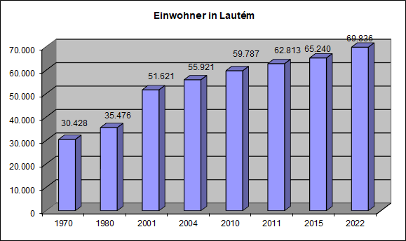 Population in Lautém/East Timor